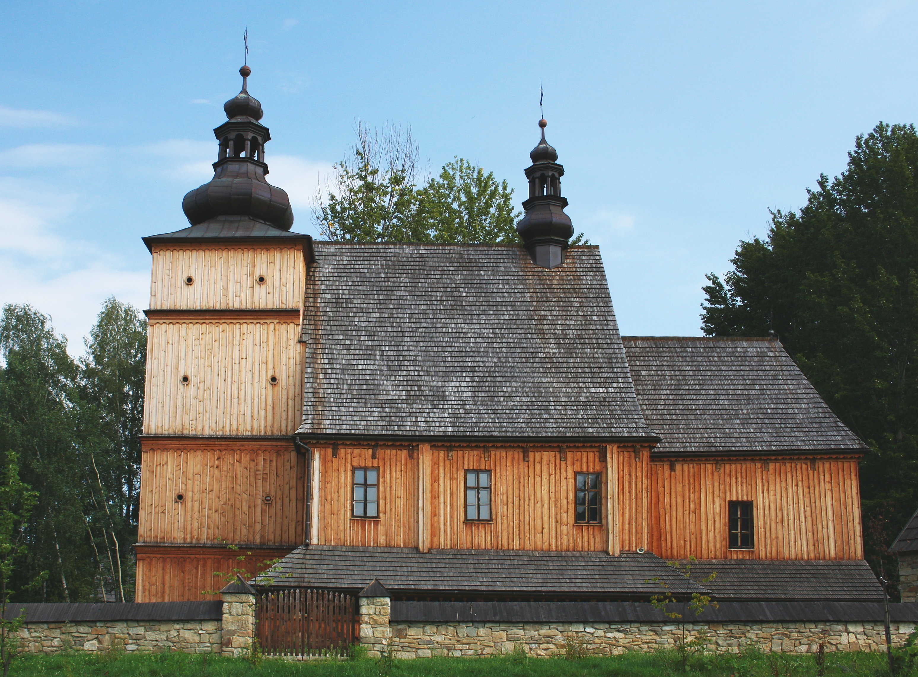 The church from Łososina Dolna, Skansen in Nowy Sącz, Poland